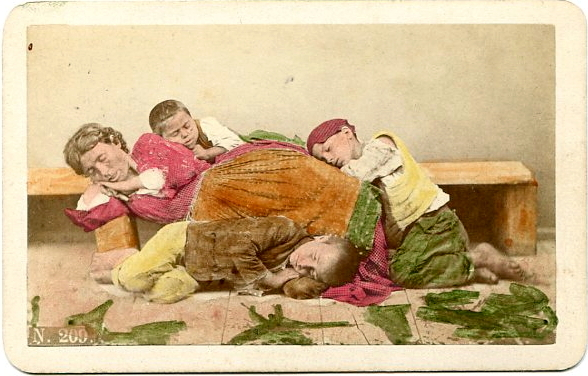 Giorgio Conrad (1827-1889) - A homeless mother and her children sleep in the street. Stereo card. Catalogue # 209.